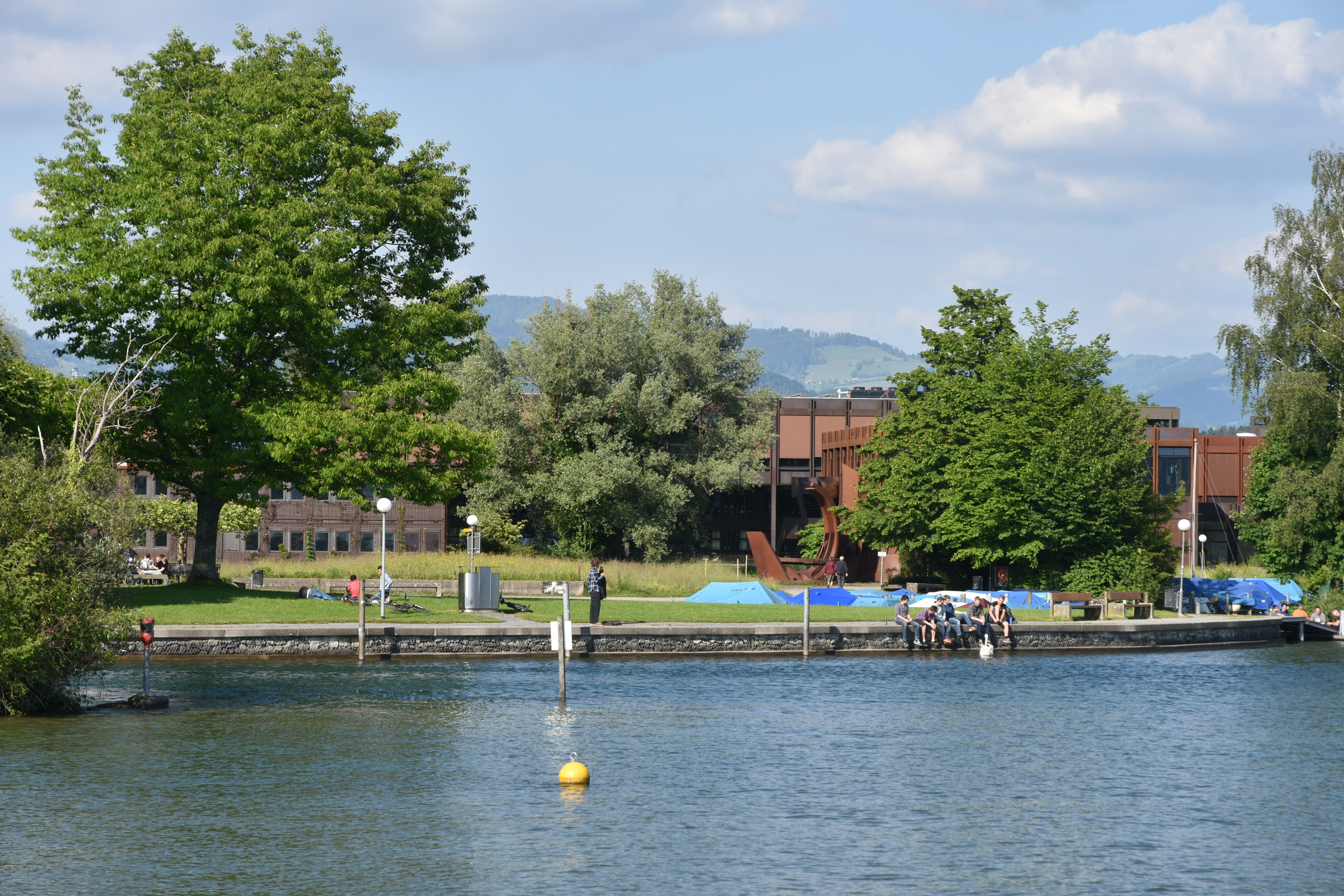 Zürichsee at Rapperswil (Switzerland) alongside Holzbrücke crossing Obersee (upper Lake Zurich) between Rapperswil and Hurden at the so-called Seedamm area.